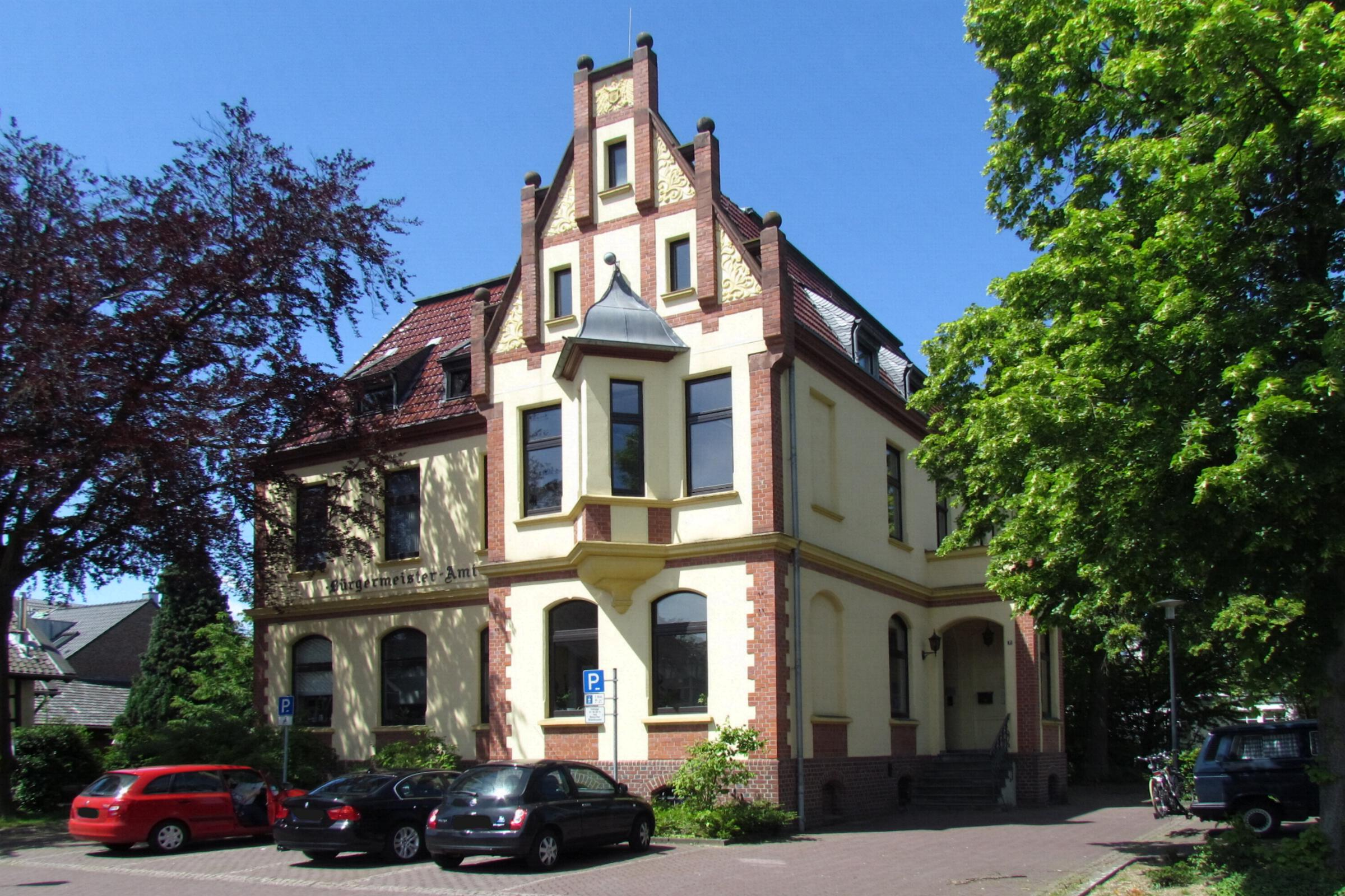 This is a photograph of an architectural monument.It is on the list of cultural monuments of Korschenbroich